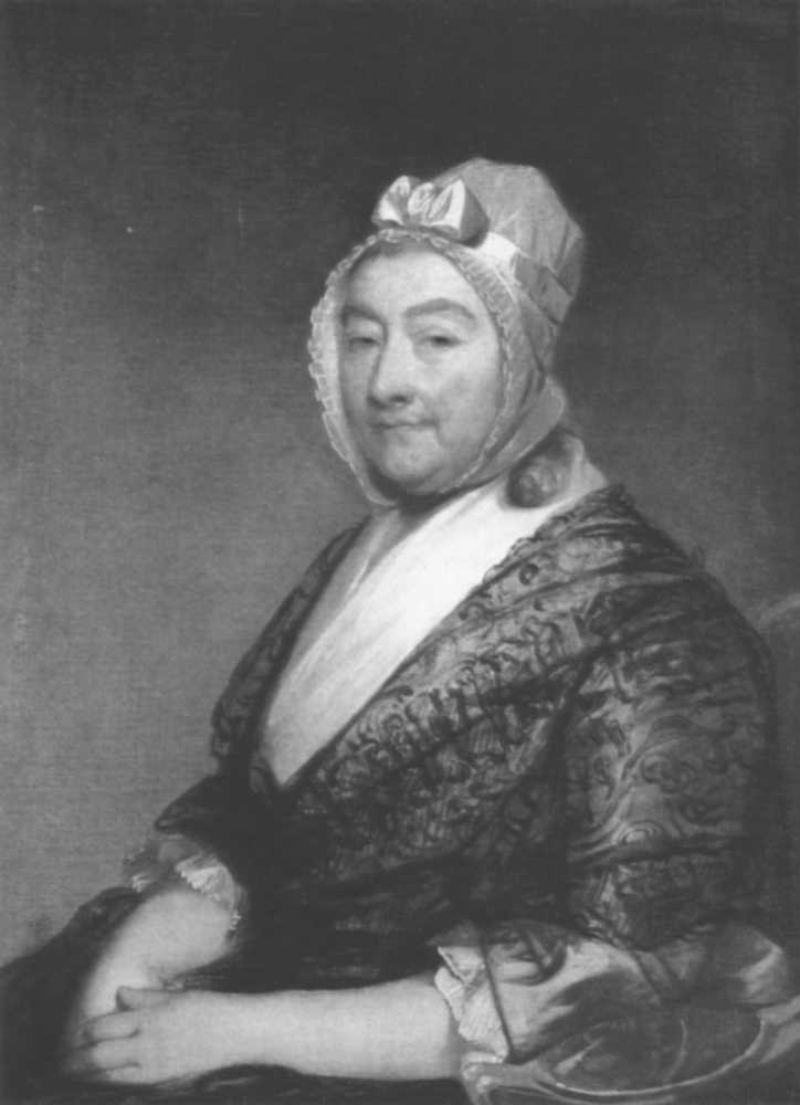 Oil on Canvas 36x28 private collection